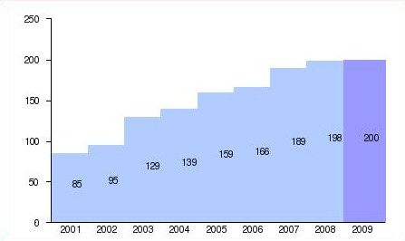 Shows cumulative orders for the A380 till April 09